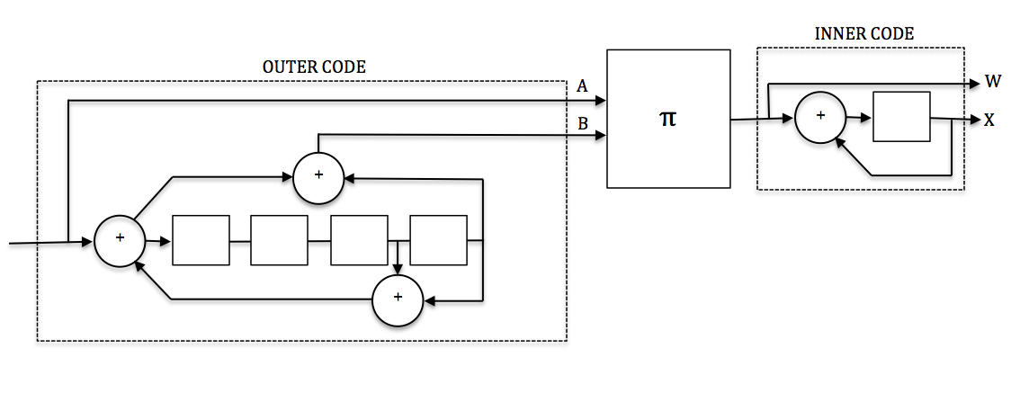 Diagram of a serial concatenated convolutional code.